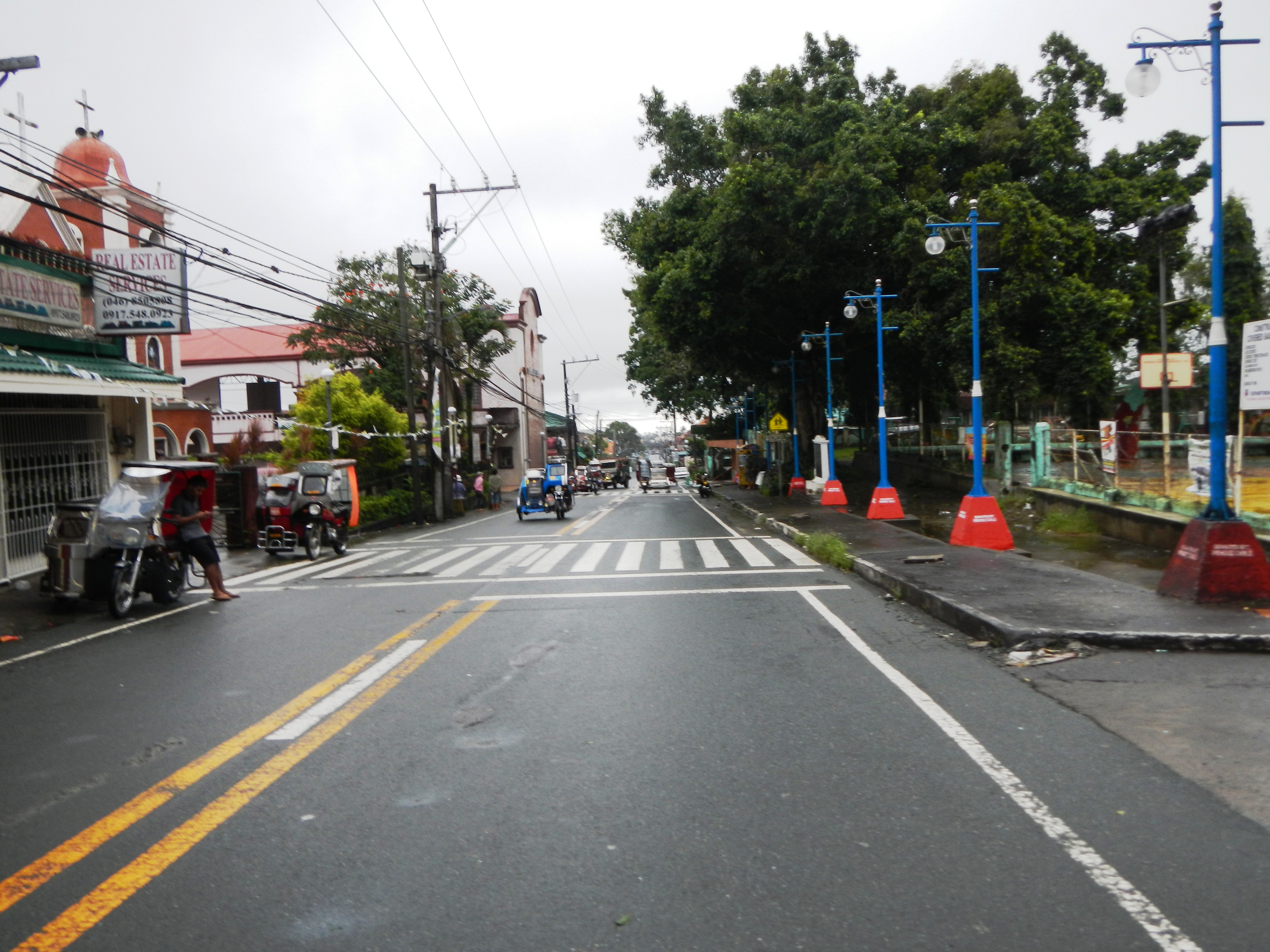 UploadWizard photos -- (General description, 3-dimension angle by angle photography of this town, church & landmarks) -- Mendez, Cavite [1] Centro, downtown, Poblacion -- Municipal Hall and Park -- specifically: the Town Hall, Park, Plaza, Basketball Court, Covered Courrt, Children's playground, Grandstand in front of Town Hall, Coordinates: 14°7'19"N 120°53'27"E - (Mendez-Nuñez is a fourth class urban municipality in the province of Cavite,[2] Philippines; 2010 Philippine census, population of 28,570 people in an area of 43.27 square kilometers; naned after a Spanish naval officer and close friend, Commodore Castro Méndez Núñez[3] as of 1 January 1915 became independent town politically subdivided into 25 barangays.[4] Geographical location: Cavite, Region 4, Philippines, Asia Geographical coordinates: 14° 7' 43" North, 120° 54' 21" East, it is beside the Church: Vicariate of The Seven Archangels (Tagaytay City/Mendez/Indang/Alfonso/General Aguinaldo) Vicar Forane: Rev Fr. Luisito C. Gatdula Vicarial Representative: Rev. Fr. Hermenegildo M. Asilo St. Augustine Parish Church of Mendez (Town Proper).